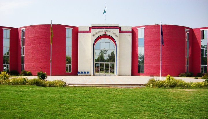 Divisional Model College Main Campus at Faisalabad. This is full version of my already published work over here